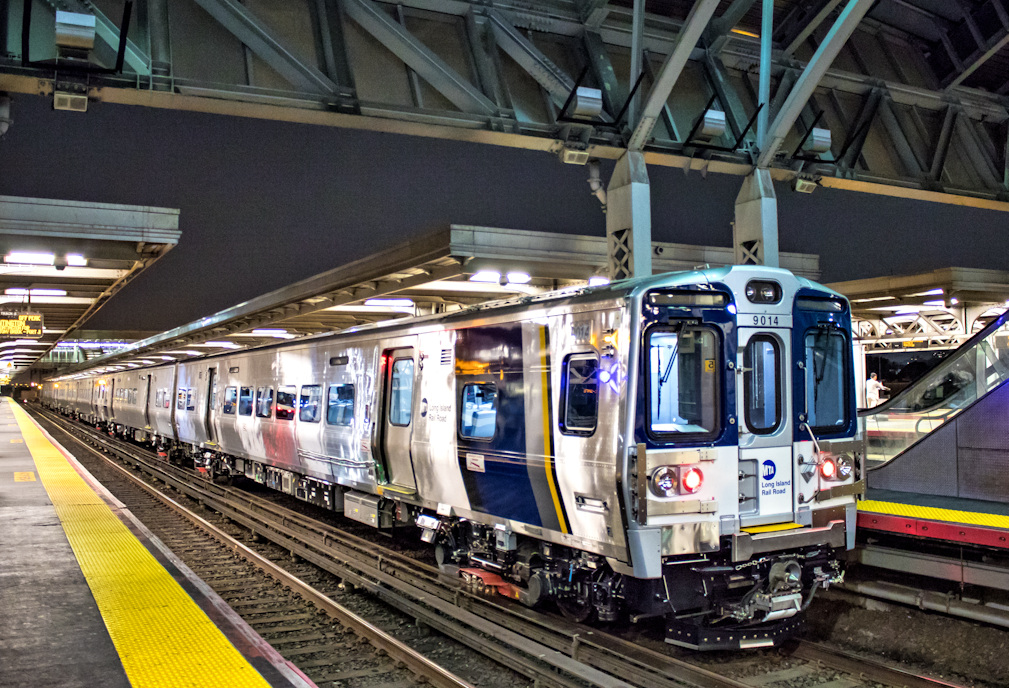 MTA Long Island Rail Road - Kawasaki M9 EMU